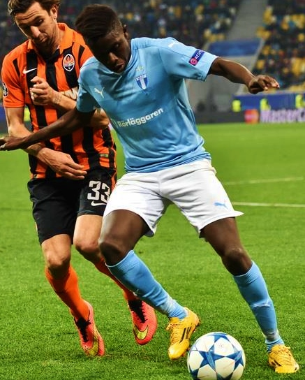 Pa Konate